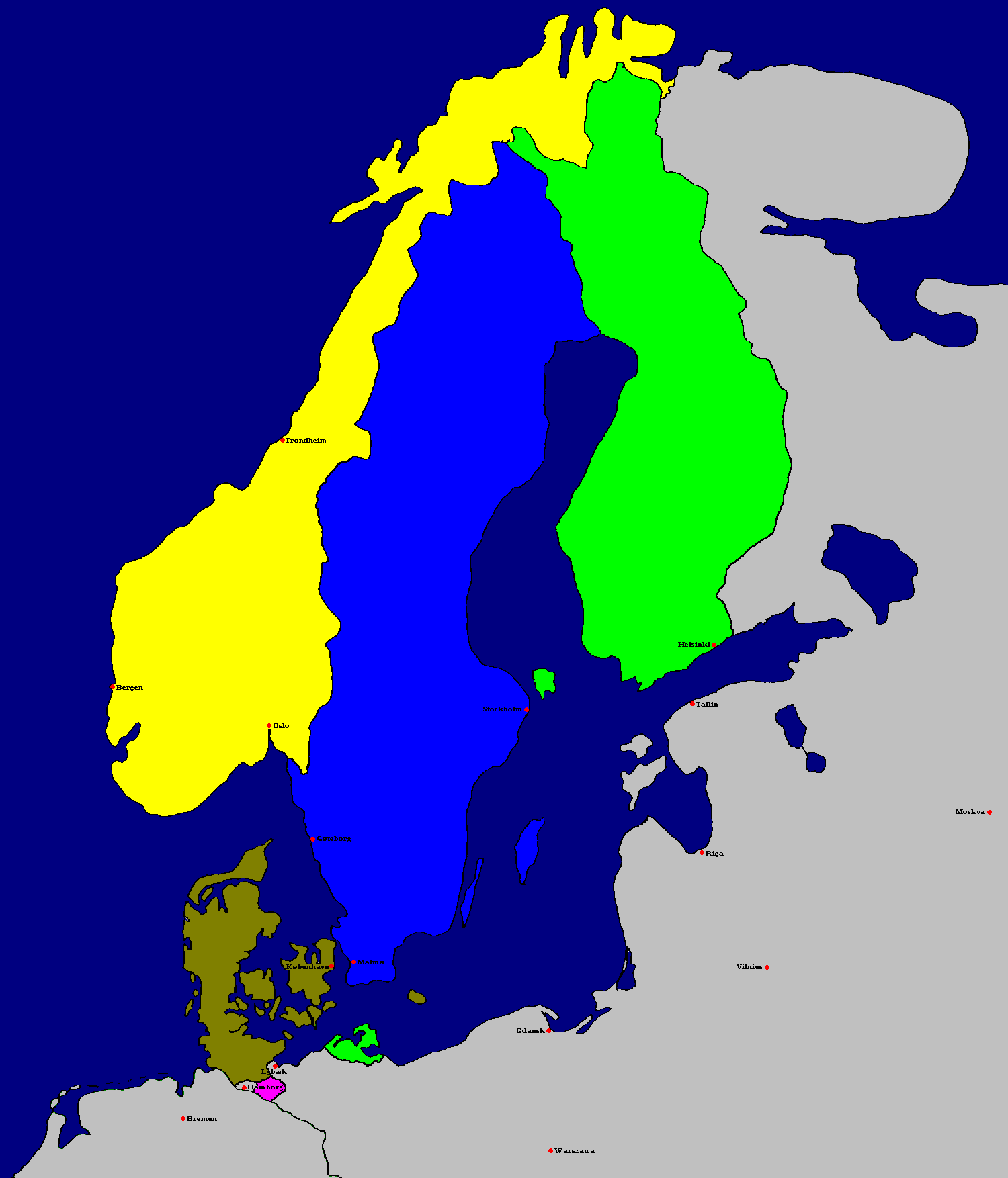 The Danish and Swedish changes of territories. Finland was ceded to Russia in 1809 (green) In 1814 Norway (yellow) was ceded to Sweden, and in return Sweden was to give Denmark the Swedish holdings in Germany (green). A year later Denmark ceded those holdings to Prussia, and was given the Duchy of Lauenburg. (purple) Created by Kasper Holl, 2006.